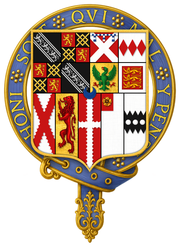 Coat of arms of Sir Anthony Browne, KG See Sir Anthony's stall plate within St. George's Chapel. The plate is currently viewable online at the Royal Collection Trust website.